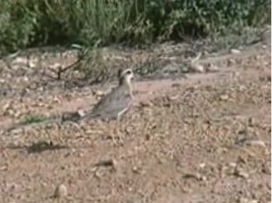 Caspian Plover (Charadrius asiaticus) Thumamah, Kingdom of Saudi Arabia, screenshot from the video